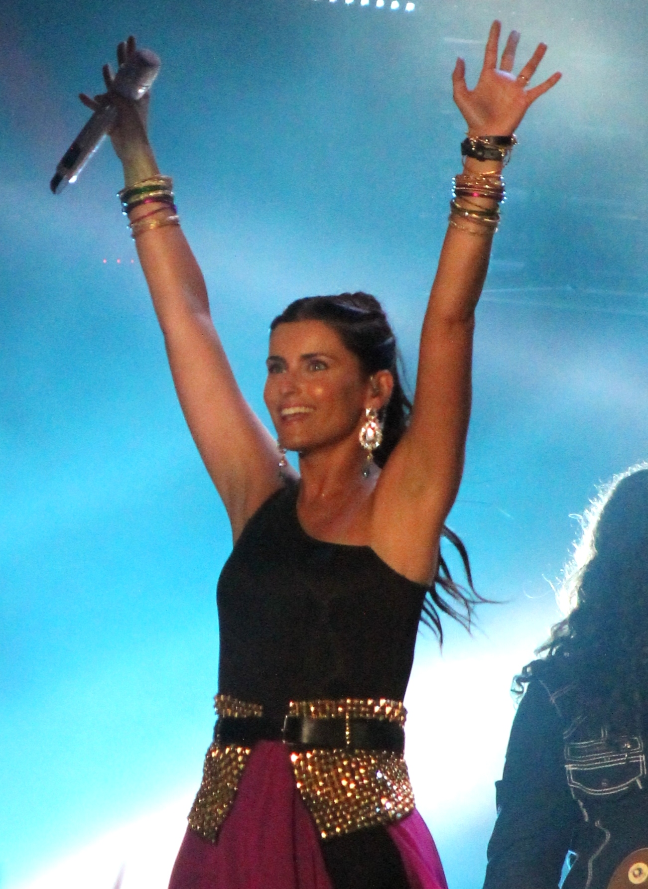 Nelly Furtado at the MTV Isle Of Malta in June 2012.